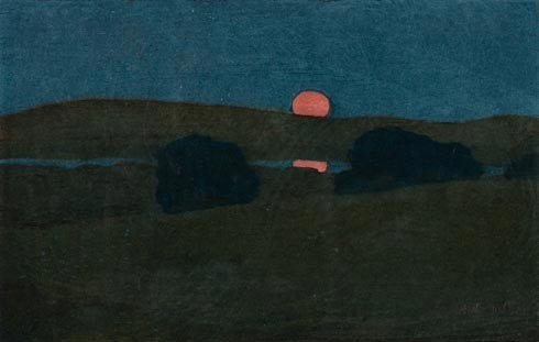 Arthur Wesley Dow (1857–1922): August Moon, ca. 1905